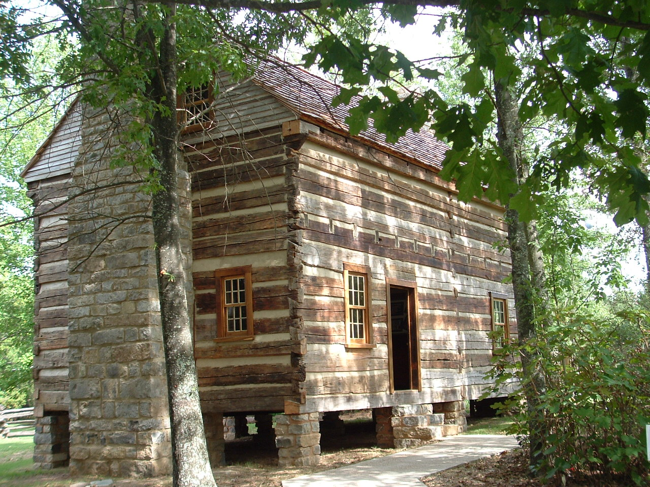 The Joel Eddins House, now located in Huntsville, AL